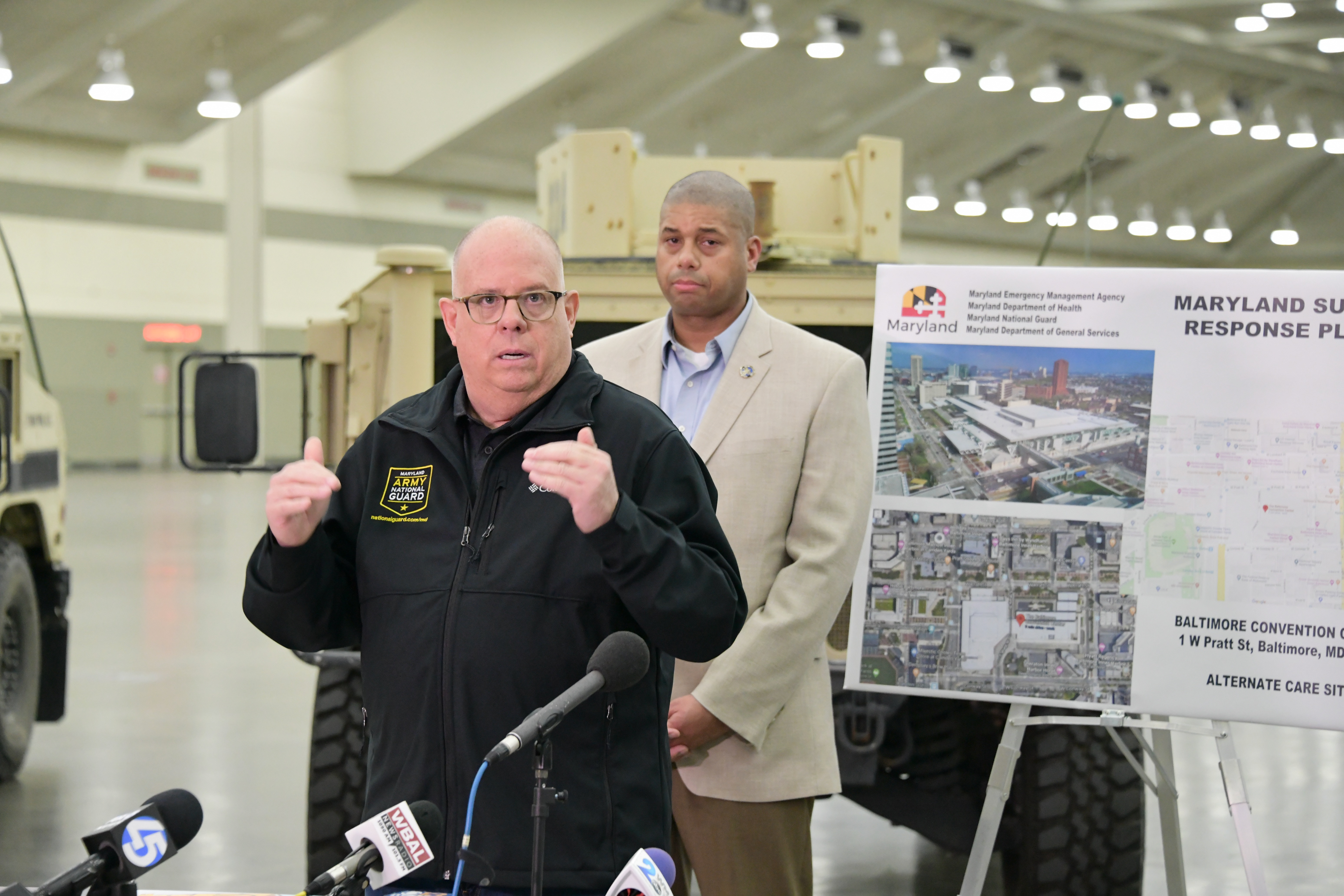 Governor Hogan Tours the Baltimore Convention Center by Joe Andrucyk at 1 W Pratt St, Baltimore, MD 21201